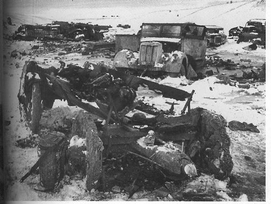 Scanned from John Erickson's Hitler versus Stalin: the Second World War on the Eastern Front in Photographs. Creator not specified. File:Wreckedtruckserickson1.jpg File:Wreckedtruckserickson1.jpg